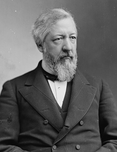 Picture of James G. Blaine.